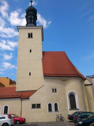 church in Bavaria